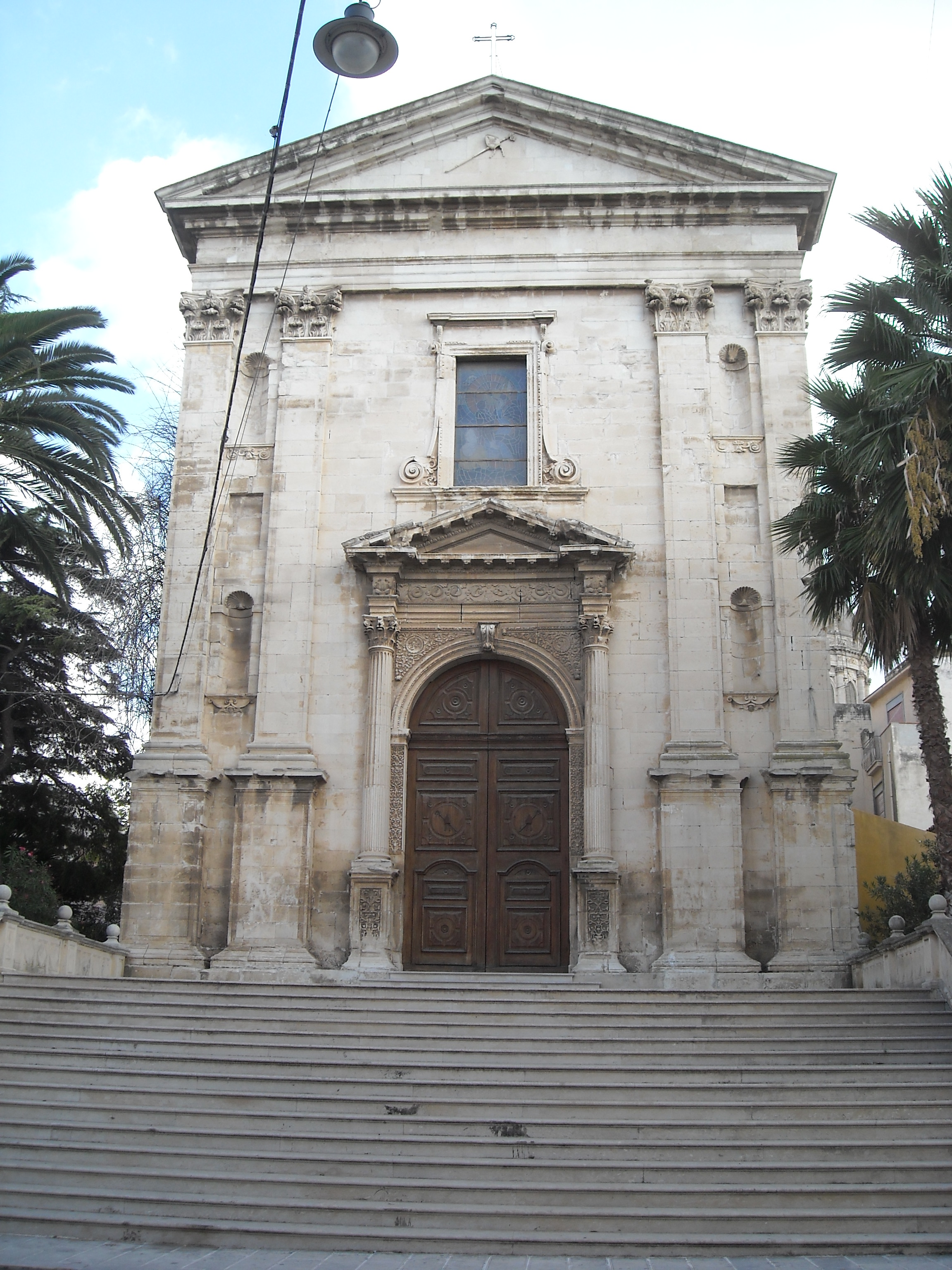 Chiesa Saint Blaise, Comiso, Roman Catholic Diocese of Ragusa, Sicily, Italy